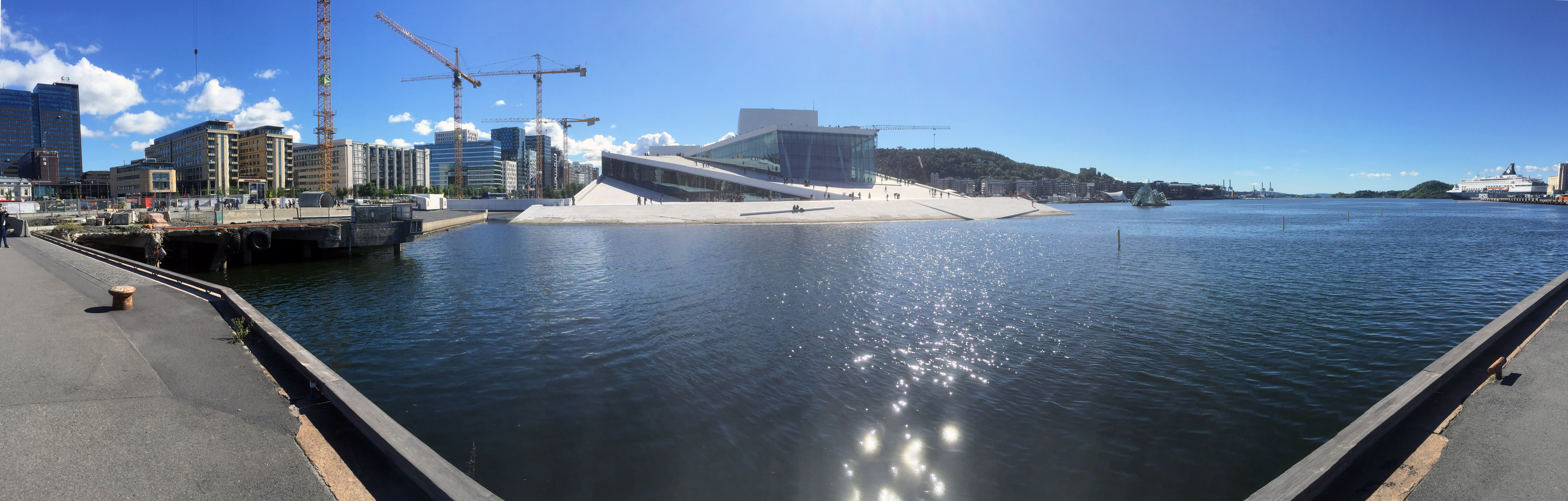 Oslo Opera House with Bjørvika Barcode buildings to the left and new residential buildings at Sørenga to the right.